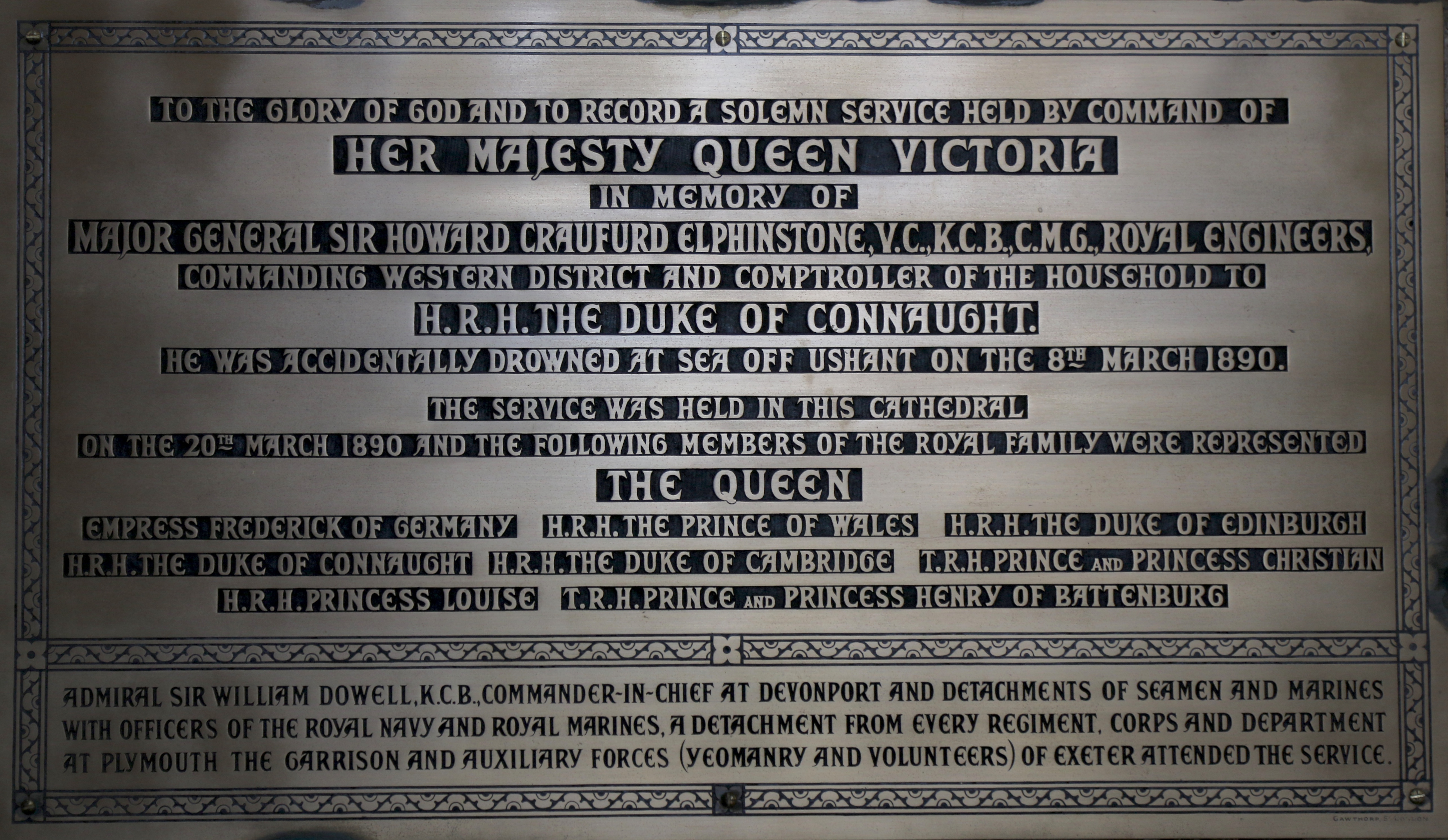 Major General Sir Howard Craufurd Elphinstone VC, KCB, CMG, Royal Engineers